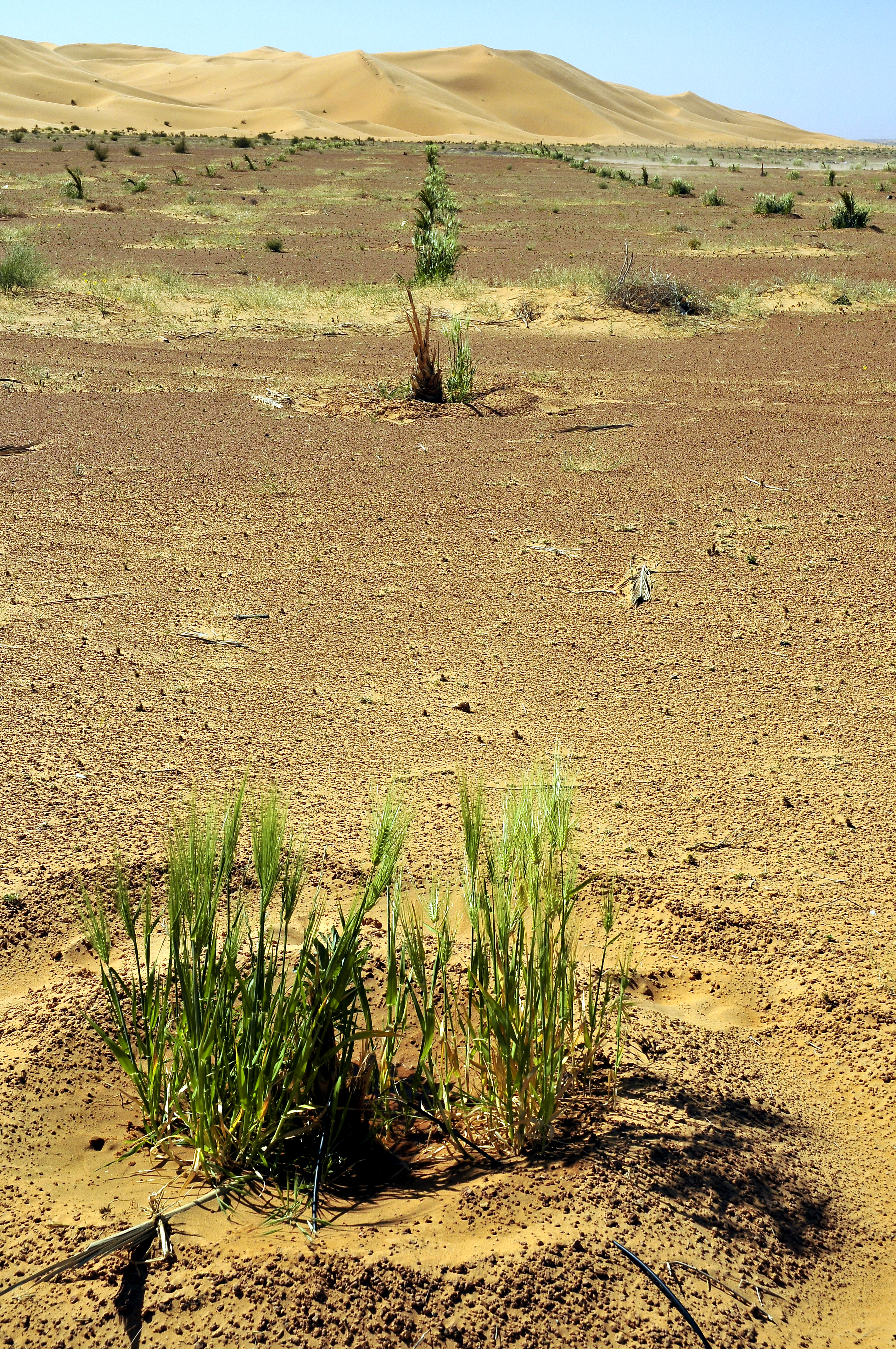 Some barley plants on the palm plantation pits (using drip irrigation).Taghit, Bechar, Algeria